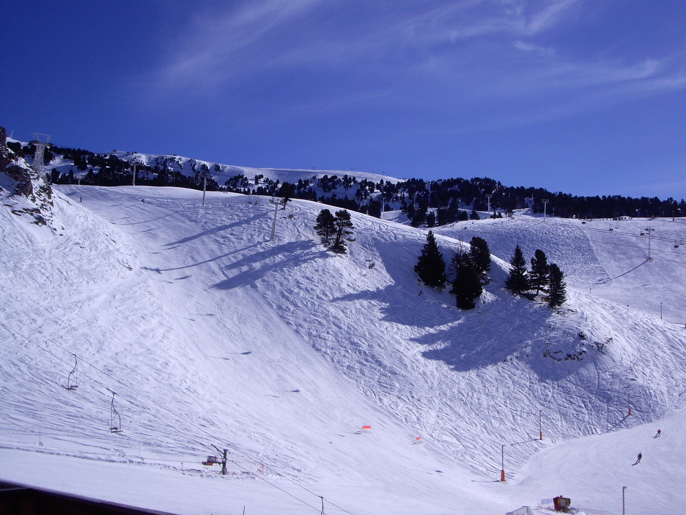 Sight on Chamrousse 1650